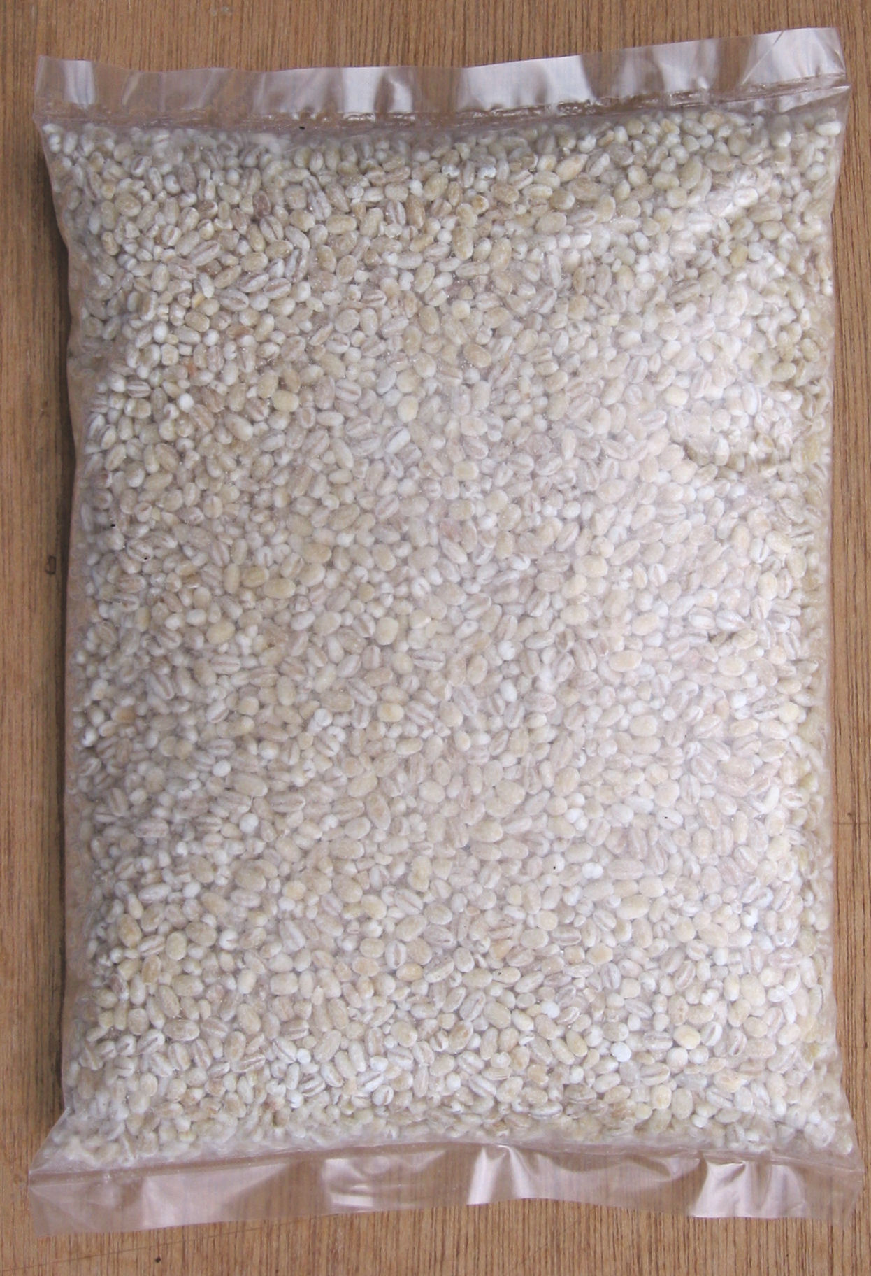 Pearl barley (Hordeum vulgare)